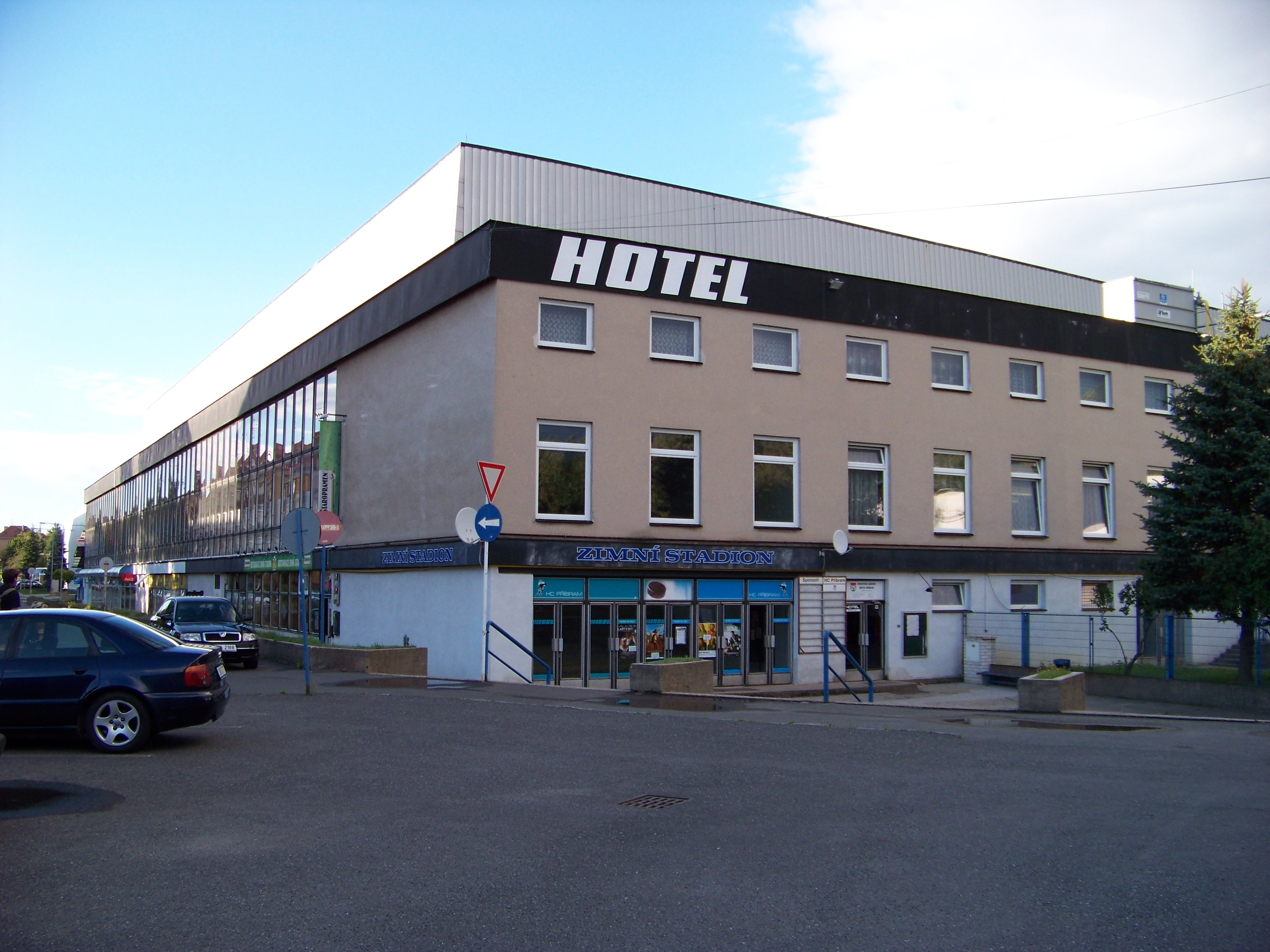 Příbram VII, Příbram District, Central Bohemian Region, the Czech Republic. Legionářů street, ice hockey stadion and a hotel.